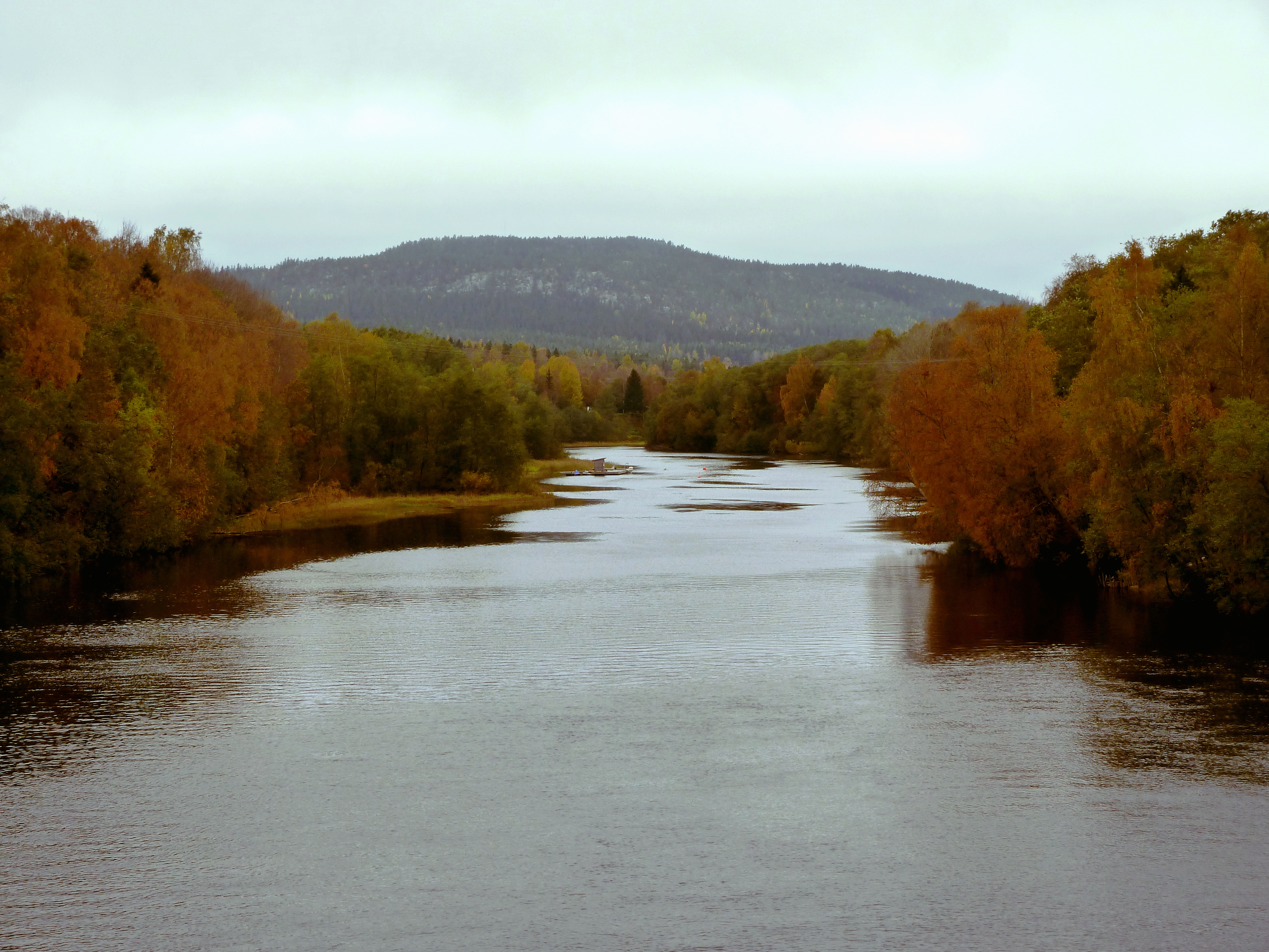 Moälven near its mouth into the Baltic Sea in autumn. Near Domsjö, Örnsköldsvi, Sweden.